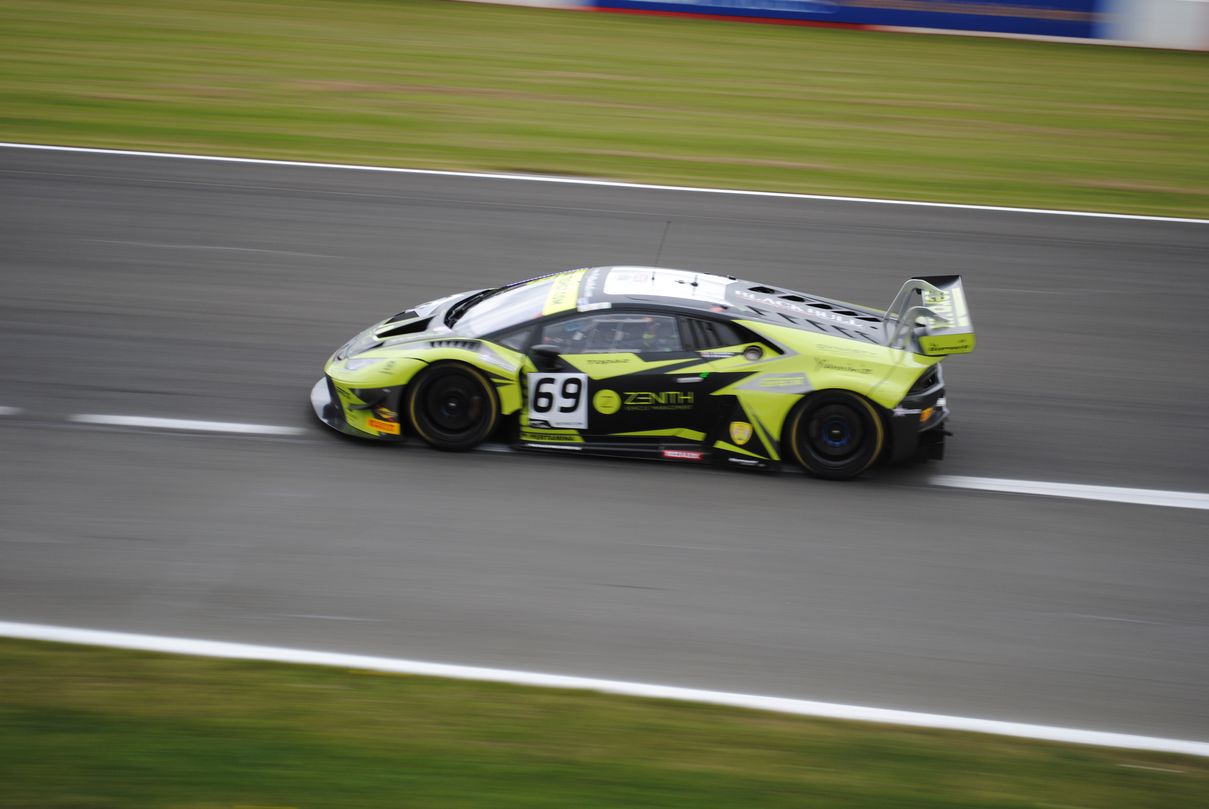 The runners up in the 2019 GT3 standings, Jonathan Cocker and Sam De Haan, by 3.5 points, finished 4th in the 2019 finale at Donington Park but it wasnt good enough for a title.